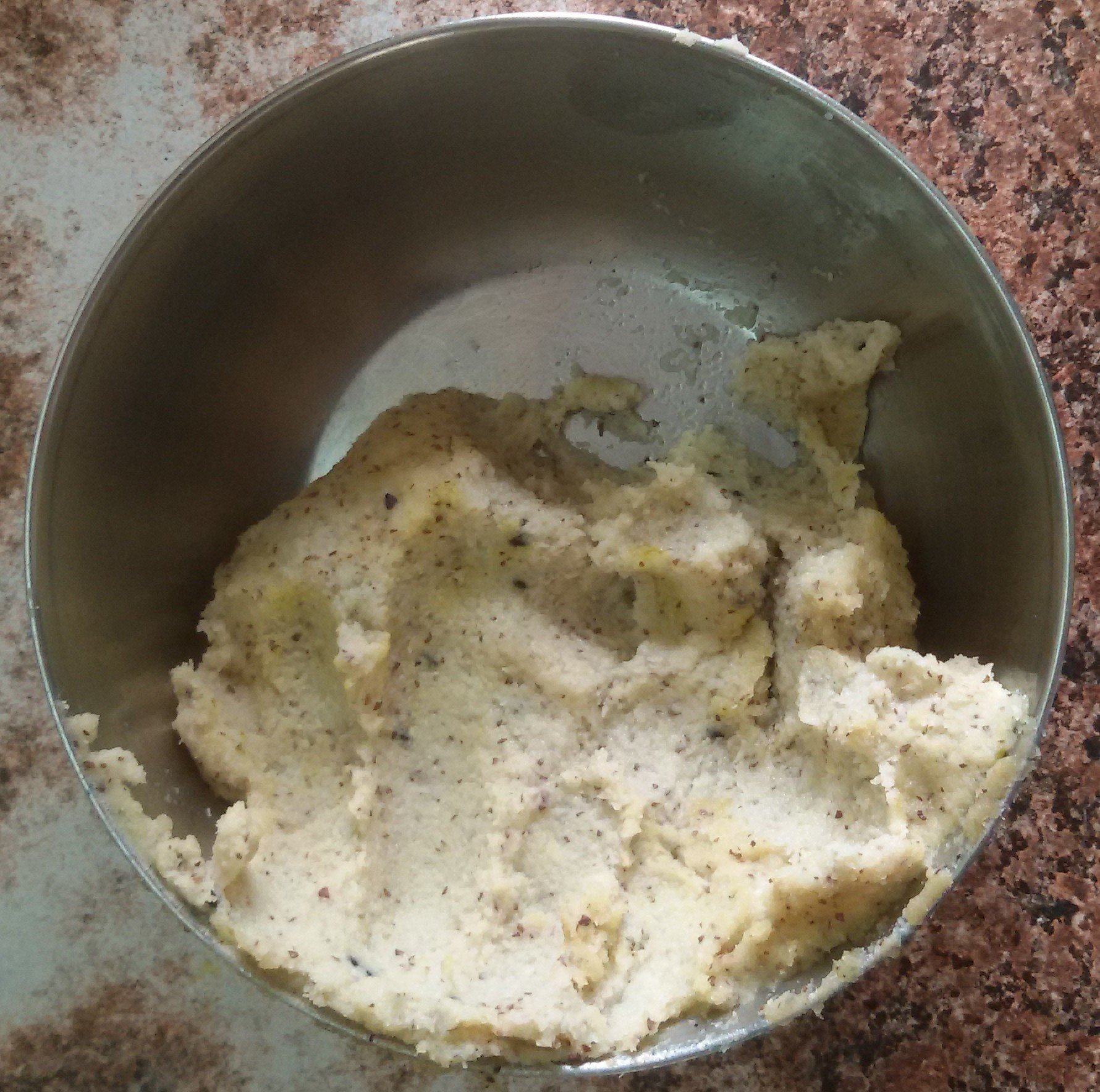 Photograph of mankachu (Alocasia macrorrhizos) and coconut kernel paste with ground mustard. This is a popular dish of West Bengal. The paste is eaten with rice.